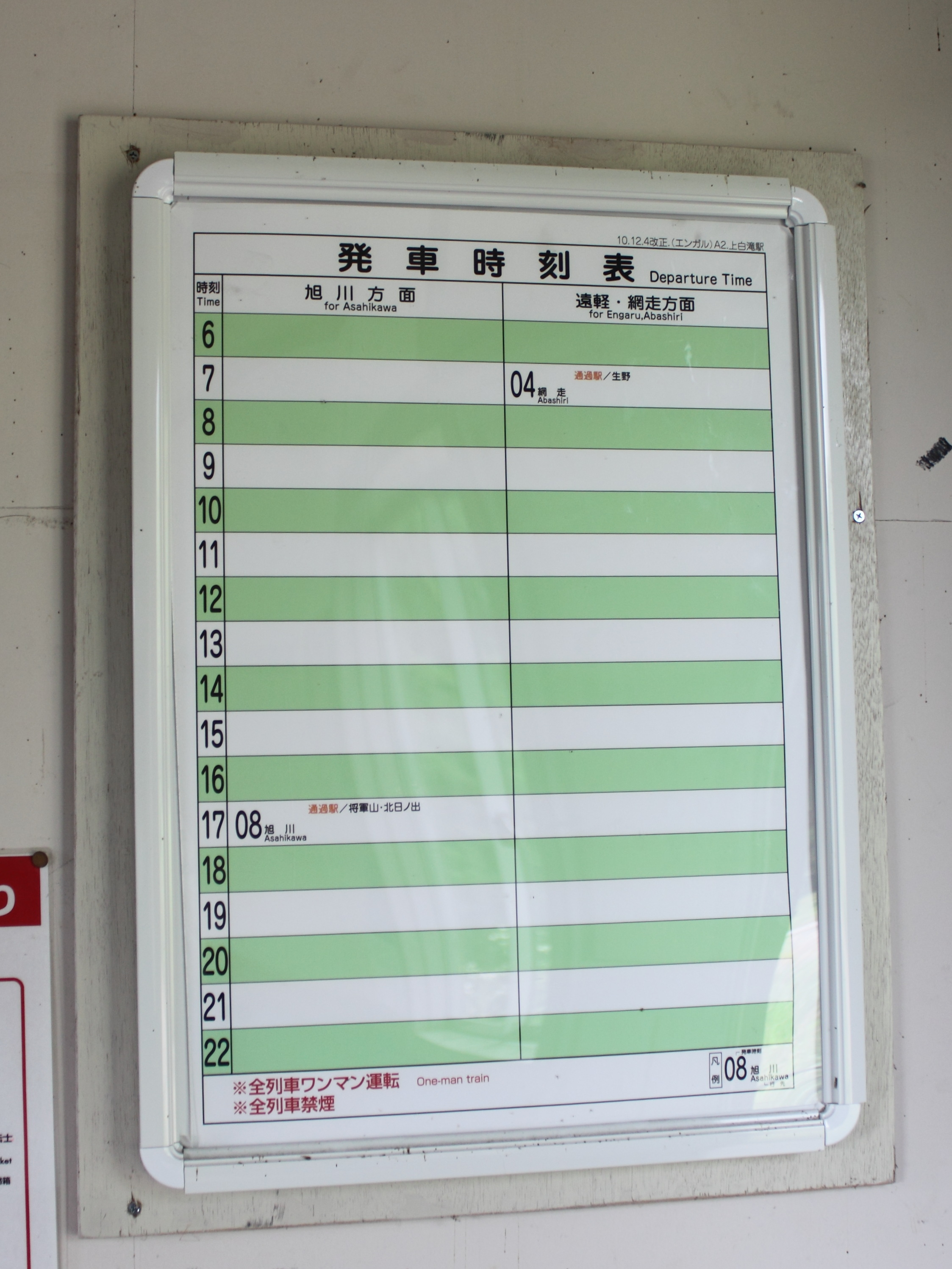 The timetable posted at Kami-Shirataki Station following the 4 December 2010 timetable revision